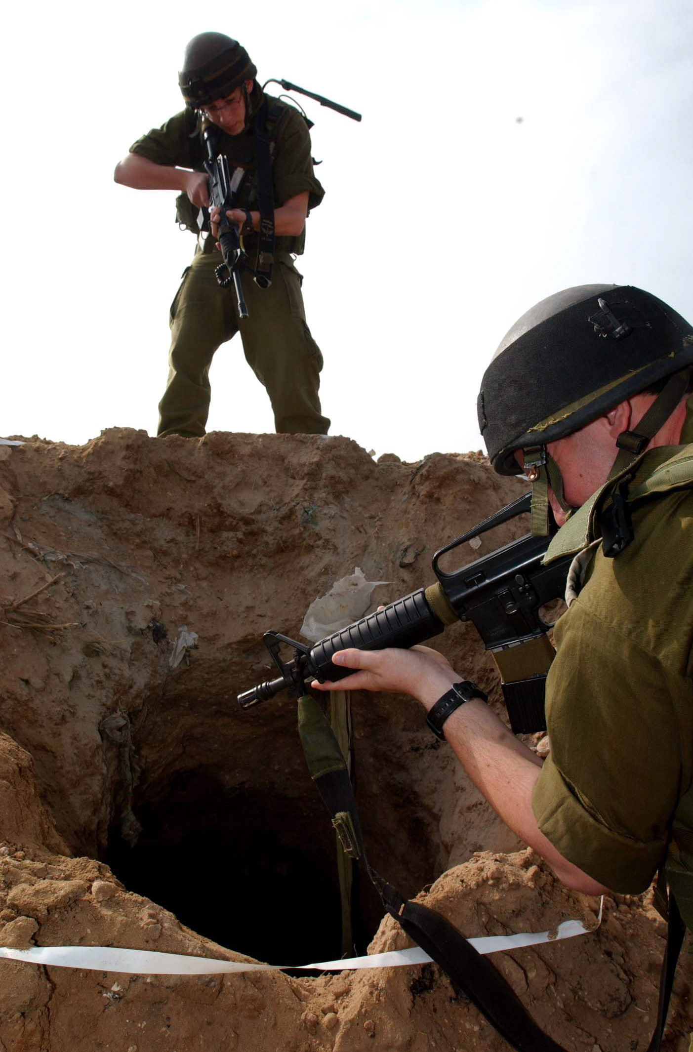 December 10, 2005 Shortly following Israel's 2005 Disengagement from the Gaza Strip, IDF forces discovered a dozens-of-meters-deep smuggling tunnel in Northern Gaza, designated for executing terror attacks in Israeli territory and built alongside the Erez crossing (on Israel-Gaza border).